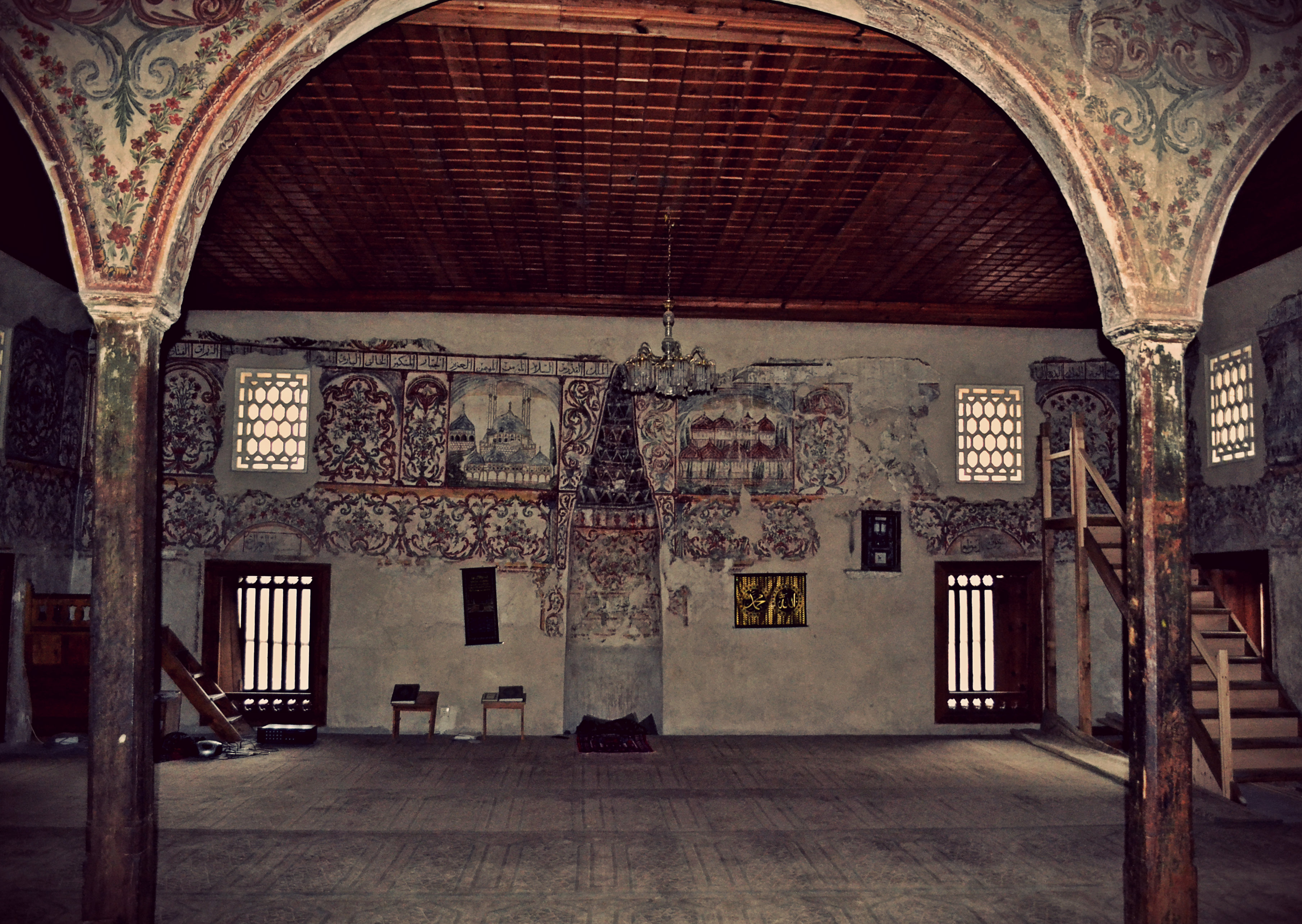 The mosque is located in the lower Mangalem neighborhood. It has two floors and arcades on three sides of it. The minaret of the mosque is low. The paintings inside the mosque date from the years 1927-1928.